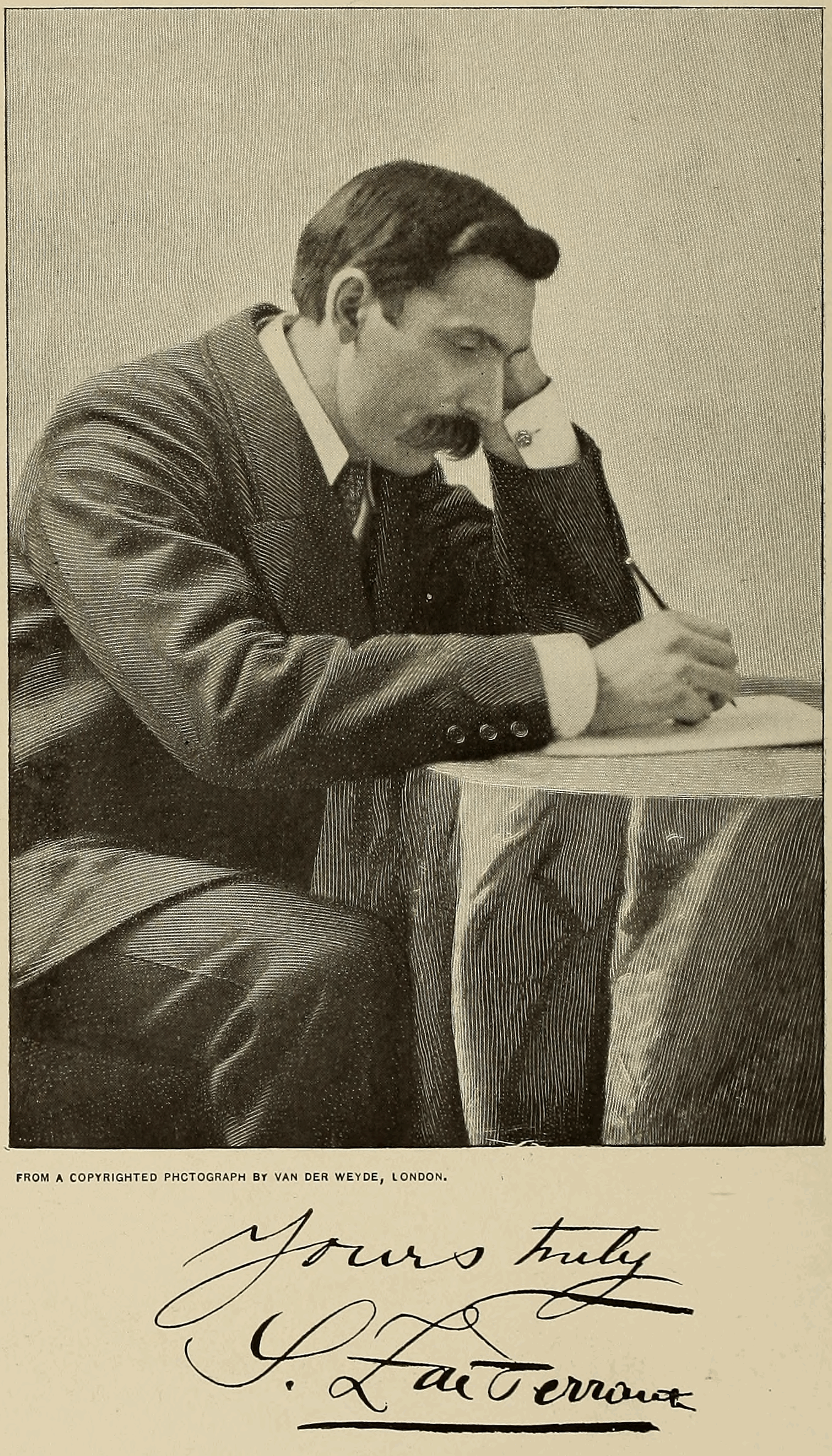 Cassier's Magazine of February 1897 had an article on page 315-332, written by H. Scholey and titled Sebastian Ziani de Ferranti. It was accompanied by a number of illustrations, including this, probably a woodcut, based on a photograph by Van der Weyde, on page 250.